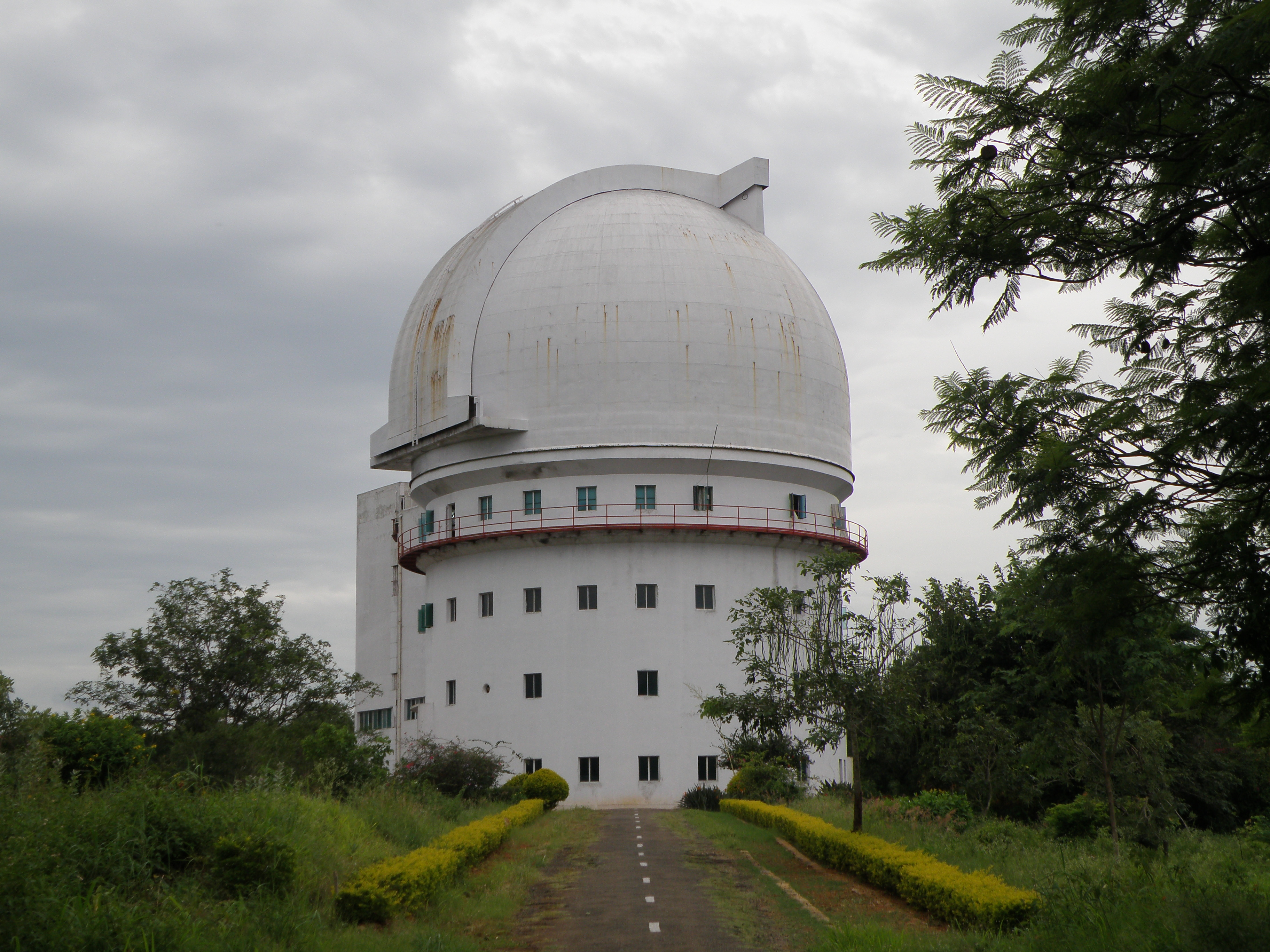 93-inch telescope building at Vainu Bappu Observatory.